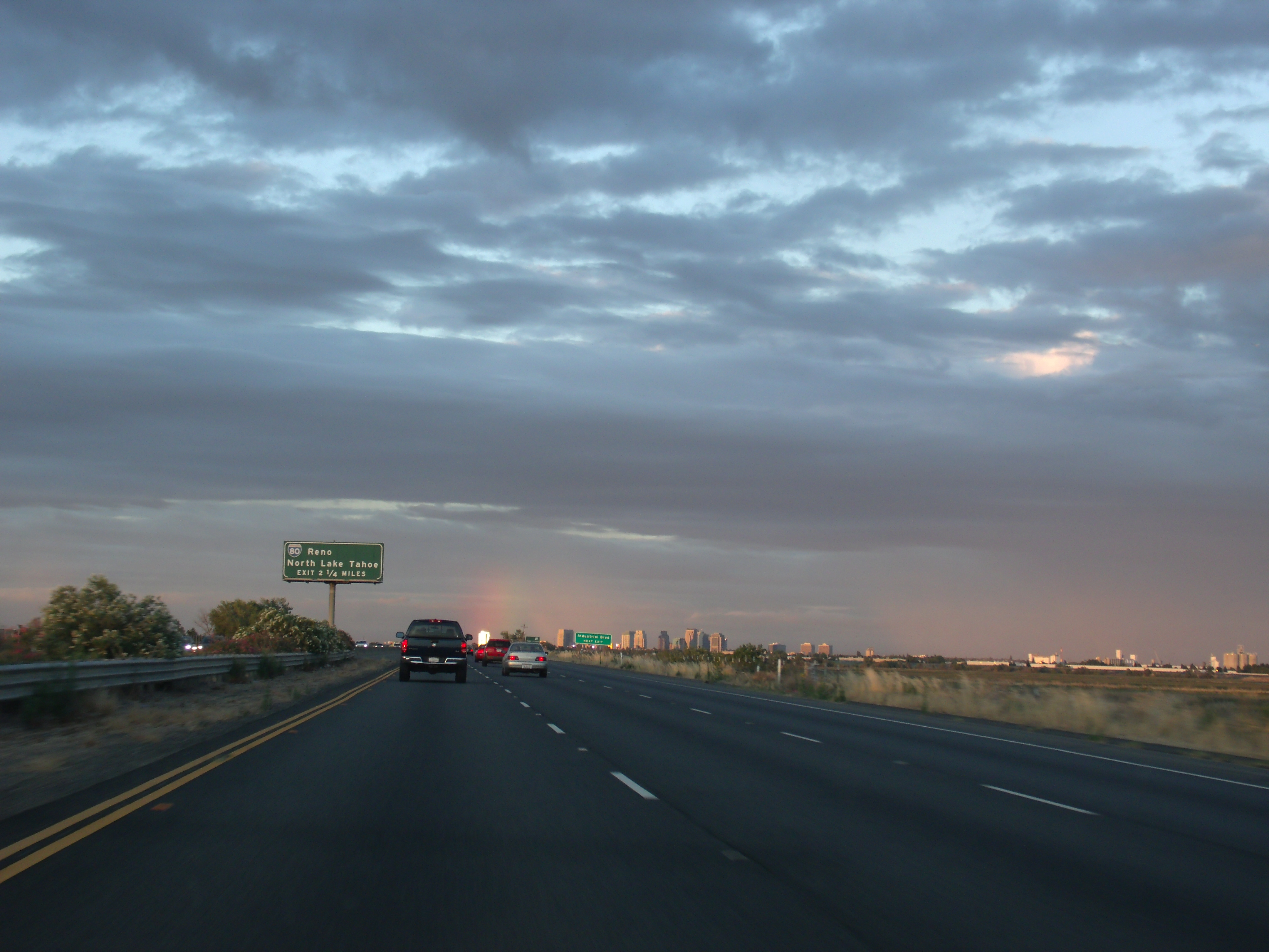 Rainbow Over Sacramento California